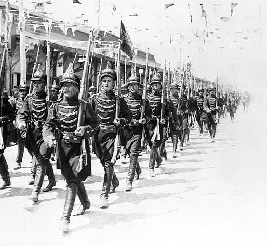 Iranian soldiers march in the capital Tehran on the day of Reza Shah Pahlavi's coronation in 1926